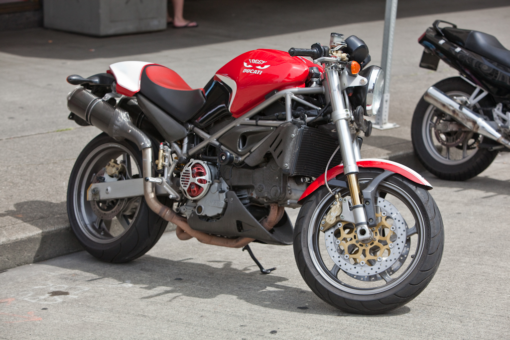 Ducati Monster S4 Foggy